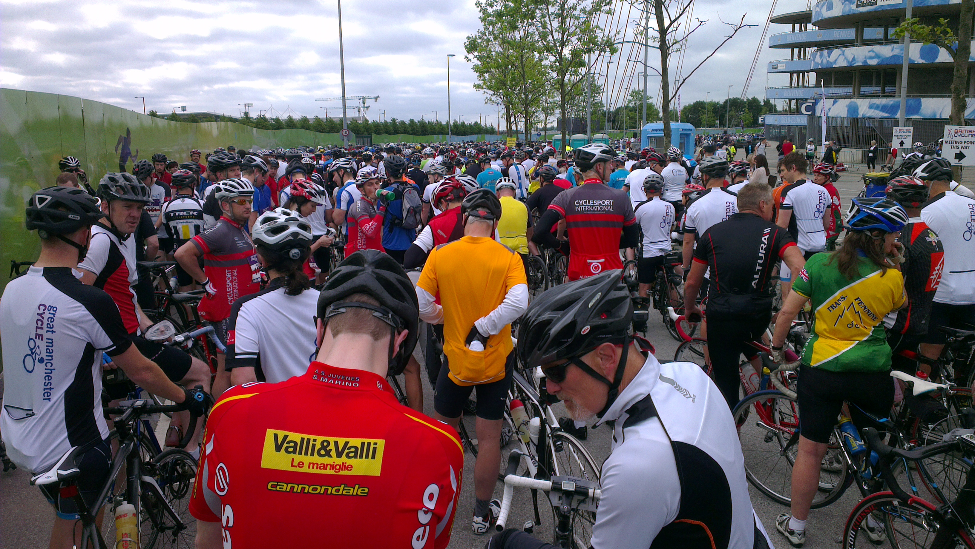 Cyclists lining up to start the 2013 Great Manchester Cycle. Etihad Stadium to the right.